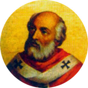 Portait of Pope Benedict III in the Basilica of Saint Paul Outside the Walls, Rome